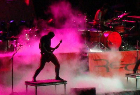 Red playing live during WinterJam 2011.